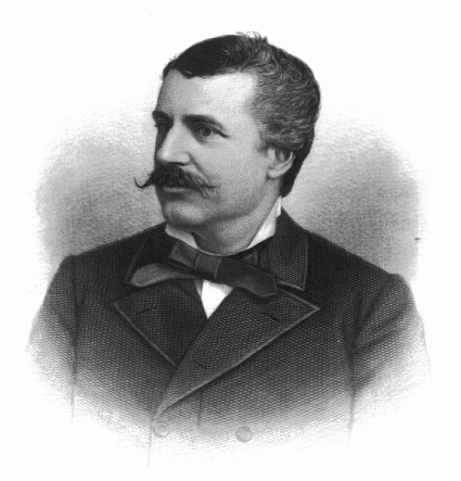 John Thomas Scharf, 1889